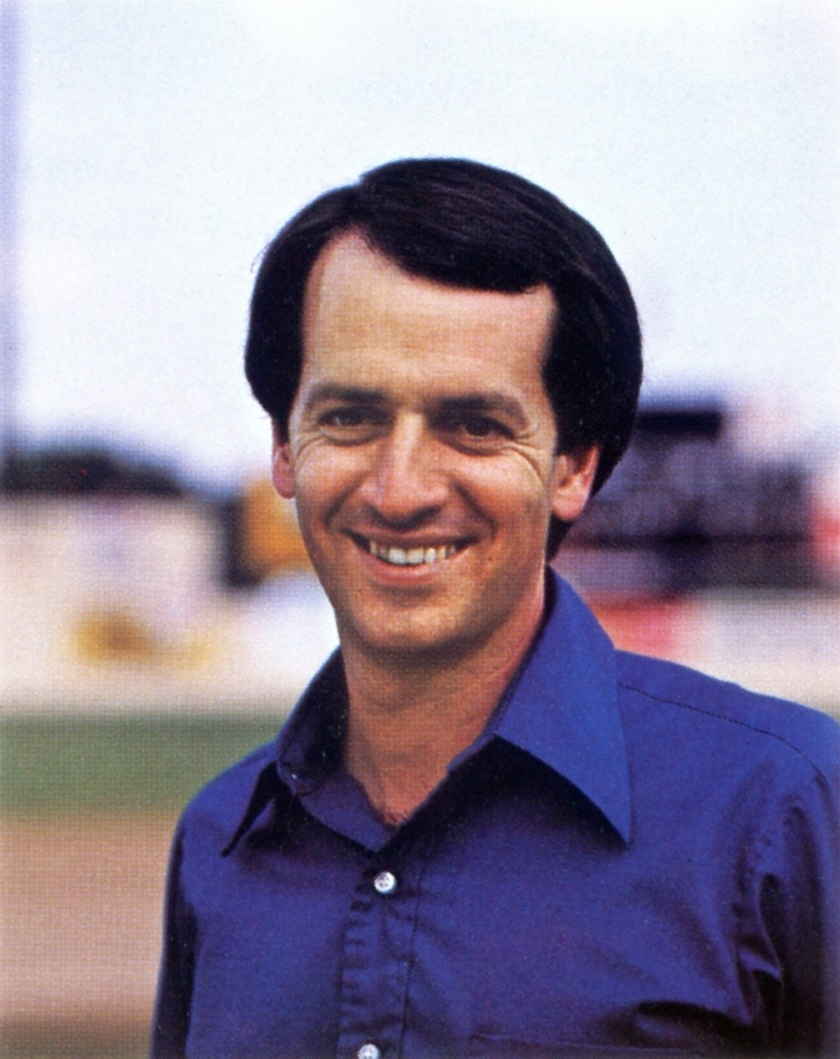 Bob Jamison, radio broadcaster of the 1981 Nashville Sounds Minor League Baseball team of the Southern League